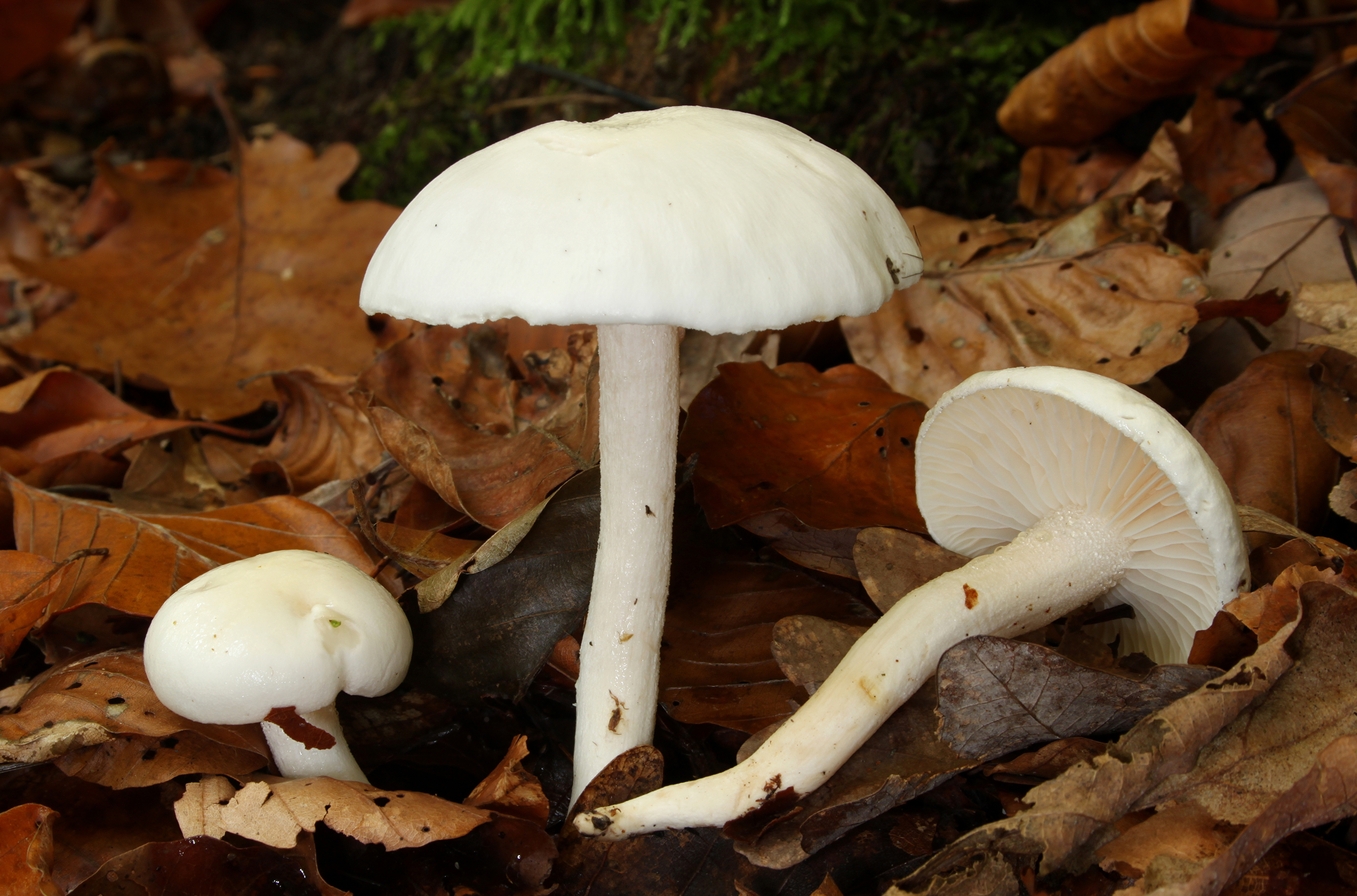 Ivory Waxy Cap or Cowboy's Handkerchief, Hygrophorus eburneus, Family: Hygrophoraceae, Location: Germany, Erbach, Ringingen